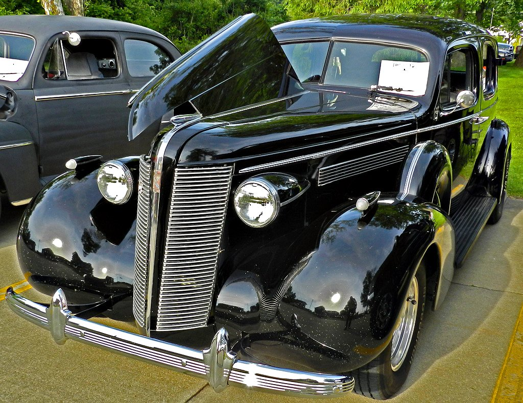 My favorite year for Buick. I remember it came on the market about the time I began 7th grade. I saw this top-of-the-line Limited in early evening just as I was leaving for home from the Ohio River Road Rodders Cruise-in at Wheelersburg, Ohio I notice the reflections show the sun low in the sky.